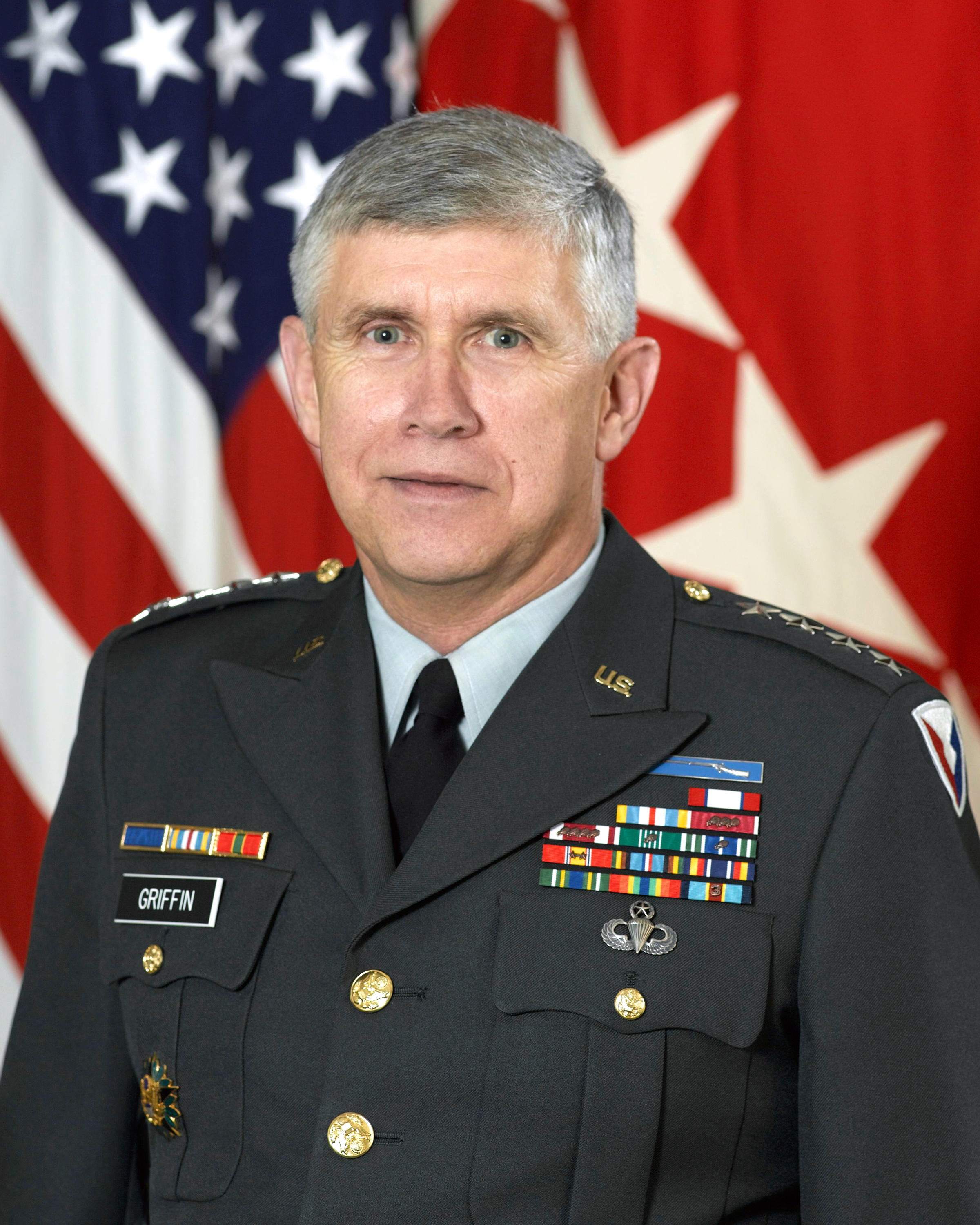 GEN Benjamin S. Griffin, USA, commanding general, U.S. Army Material Command